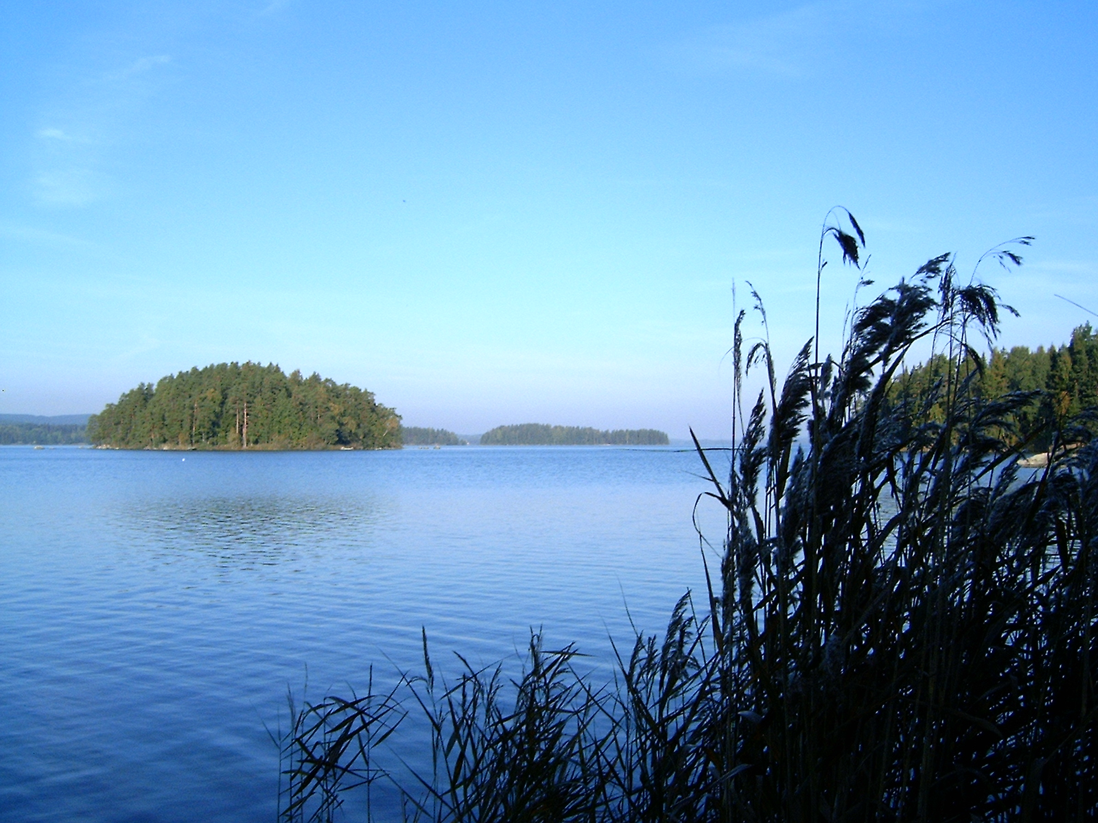 Lake Åmänning seen from Mellanängen just north of Virsbo near Fagersta, Sweden. The little island is Karboholmen.